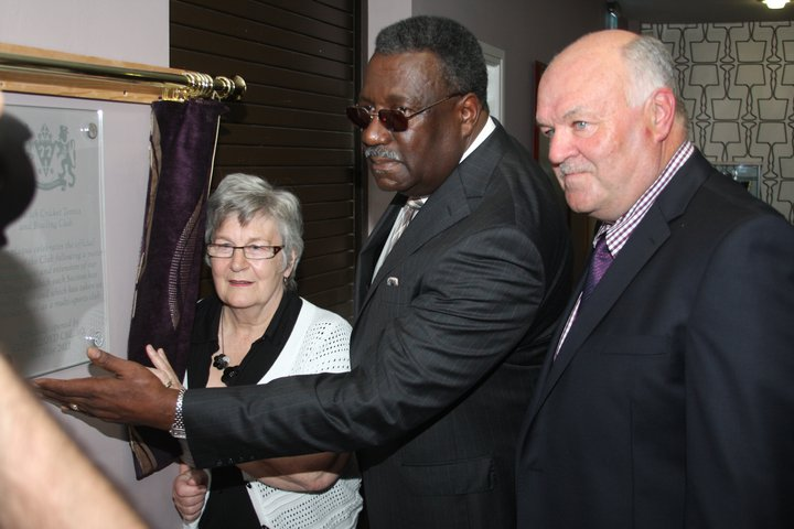 Prestwich Cricket, Tennis & Bowling Club Re-opening 2011 with former West Indies cricketer Clive Lloyd